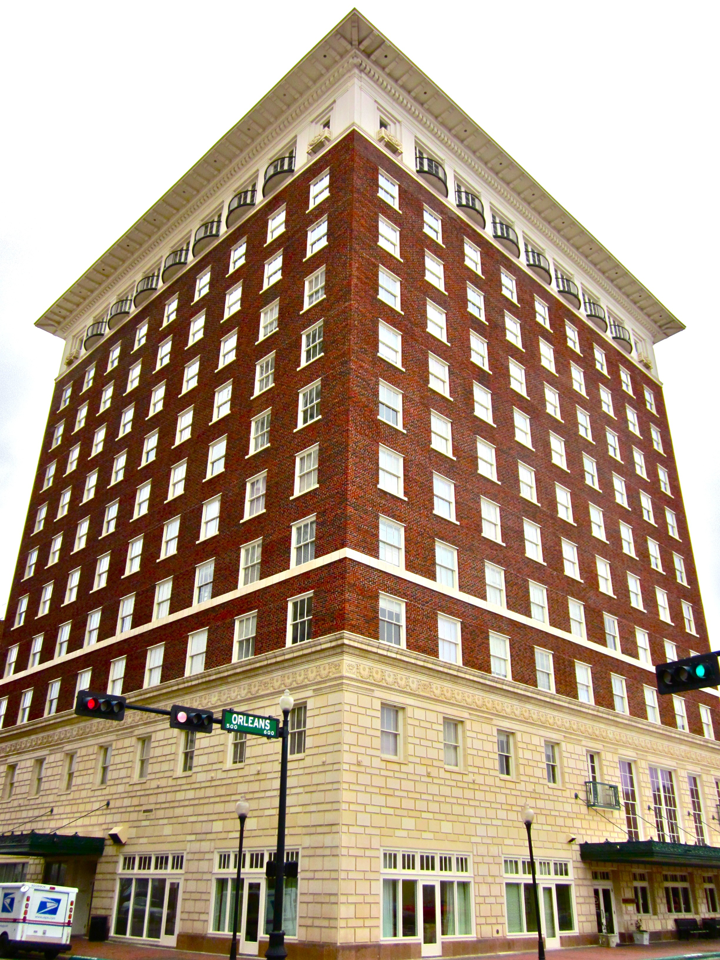 The Hotel Beaumont, Beaumont, Texas